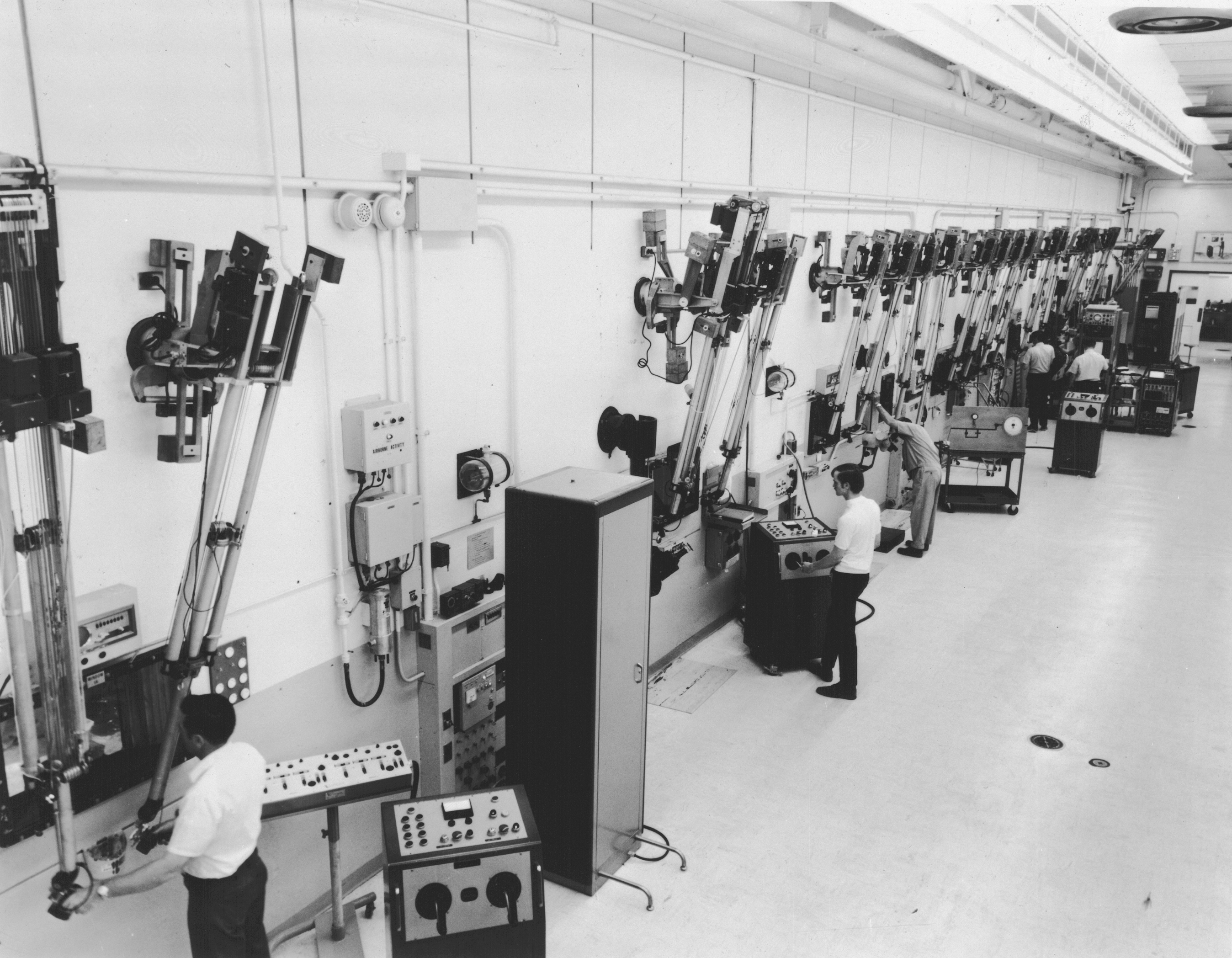 Hot cells at the Glenn Research Center, Plum Brook Station The Hot Laboratory at the Plum Brook Reactor Facility is shown in the late 1960's photo. Operators are shown working in what was termed the “Hot Cell Gallery,” using manipulator arms to handle radioactive test items inside a series of seven test cells. The operators became skilled at remotely operating the arms, shown in this photo as mounted on the right-hand wall, with black tops and light colored bottoms. The cells had fifty-two-inch, oil-filled glass windows and thick concrete walls to protect the operator from the radiation.